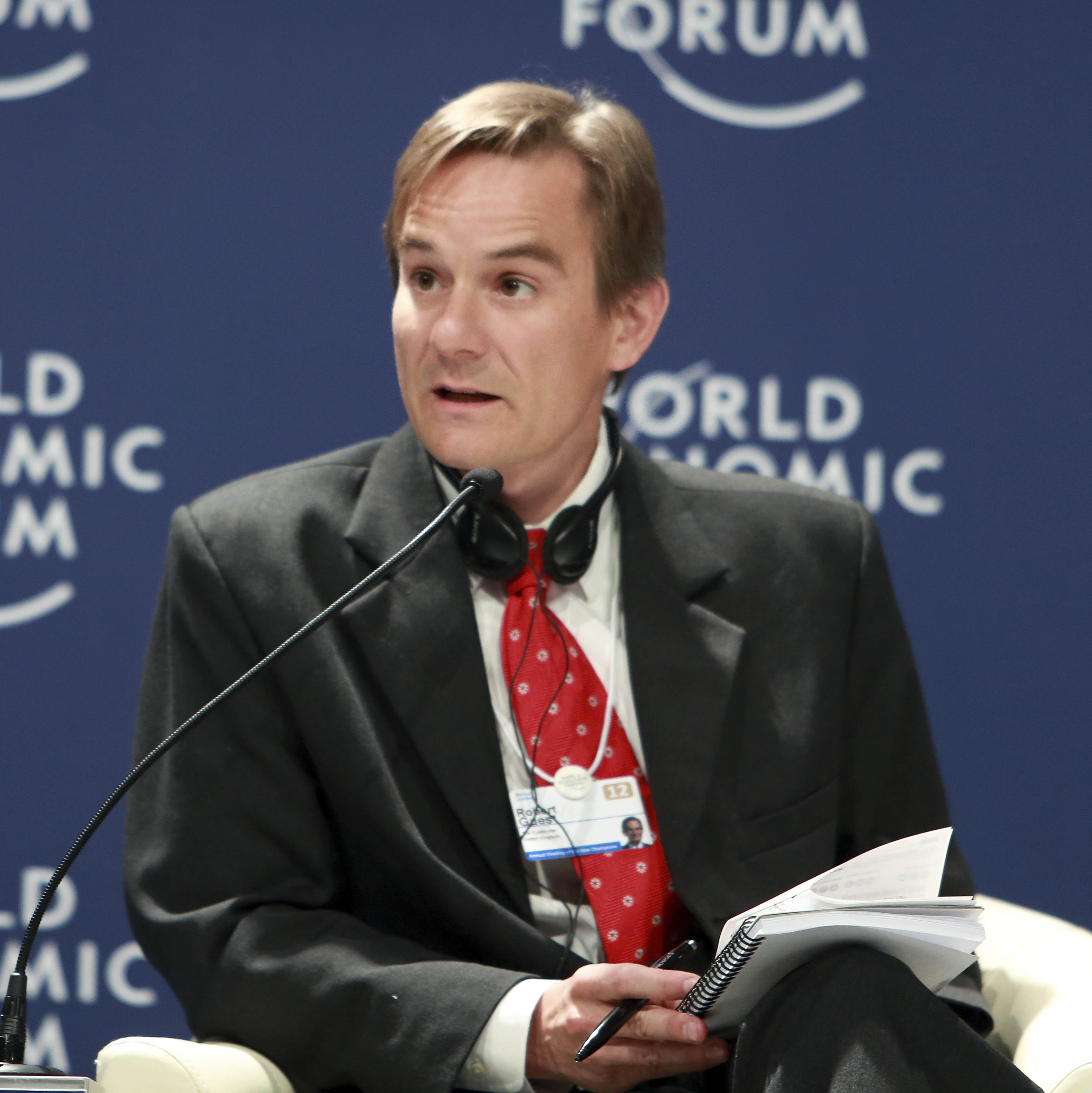 Robert Guest, Business Editor, The Economist, United Kingdom at the Annual Meeting of the New Champions in Tianjin, China 2012